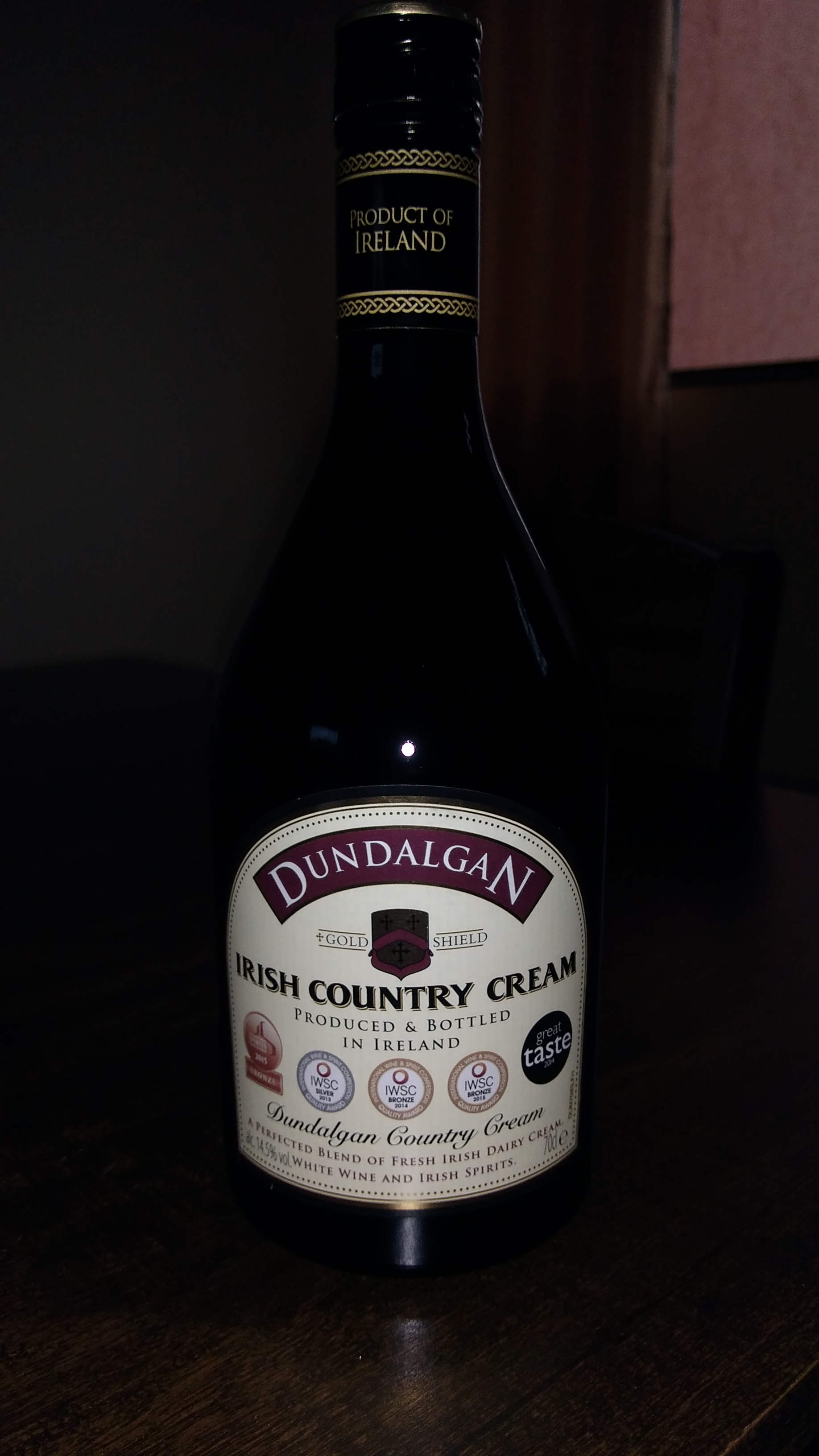 Dundalgan Irish Crem